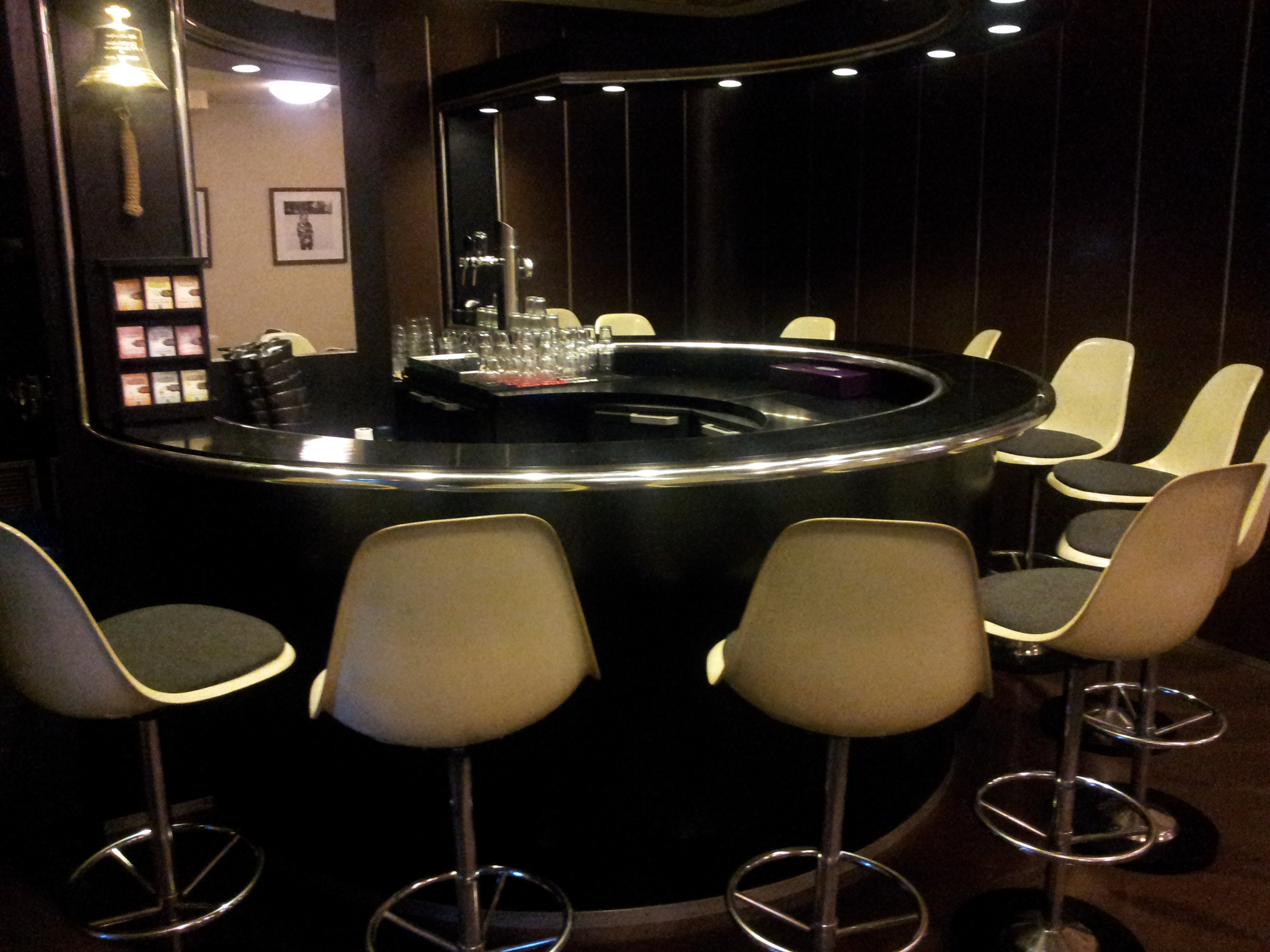 Mirliton Theater, the original bar from 1973 (constractionyear Hoog-Catharijne)